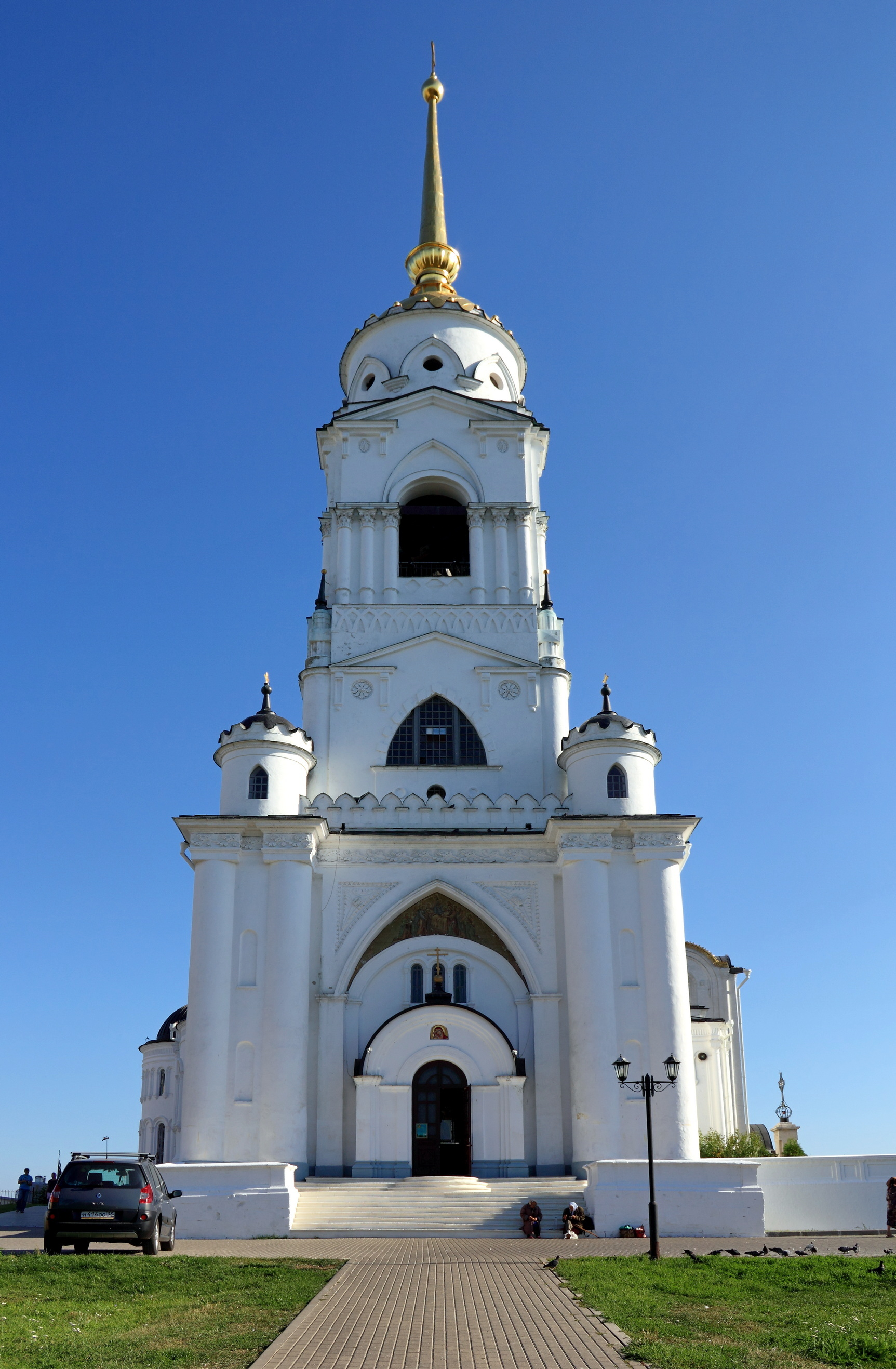 Vladimir. Dormition Cathedral. Bell tower